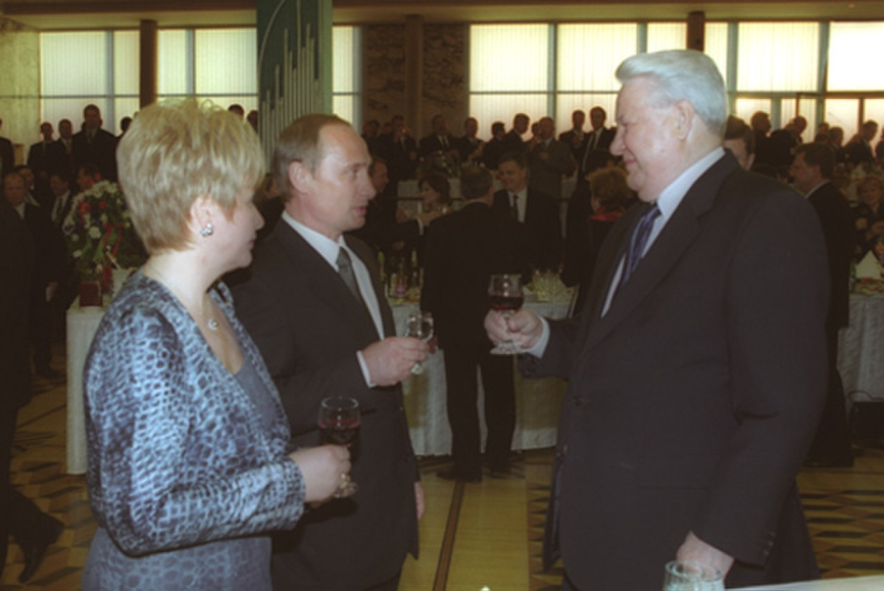 THE GRAND KREMLIN PALACE, MOSCOW. President Putin with Boris Yeltsin, the first President of Russia, at a party after the inauguration ceremony.